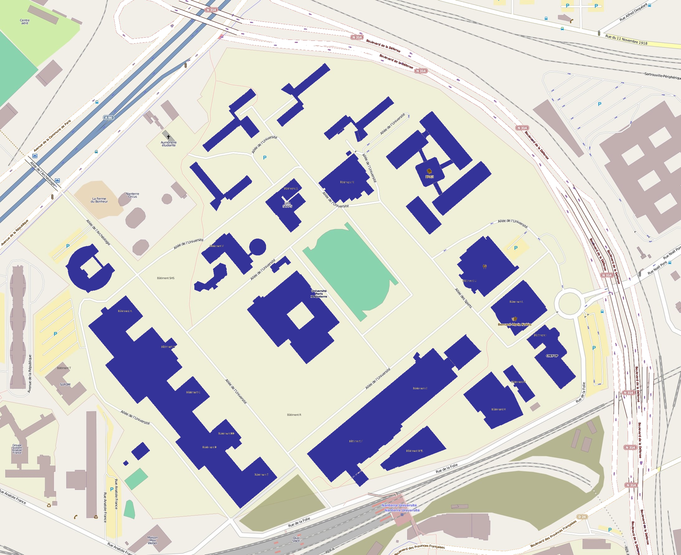 Paris of Paris X' Nanterre campus